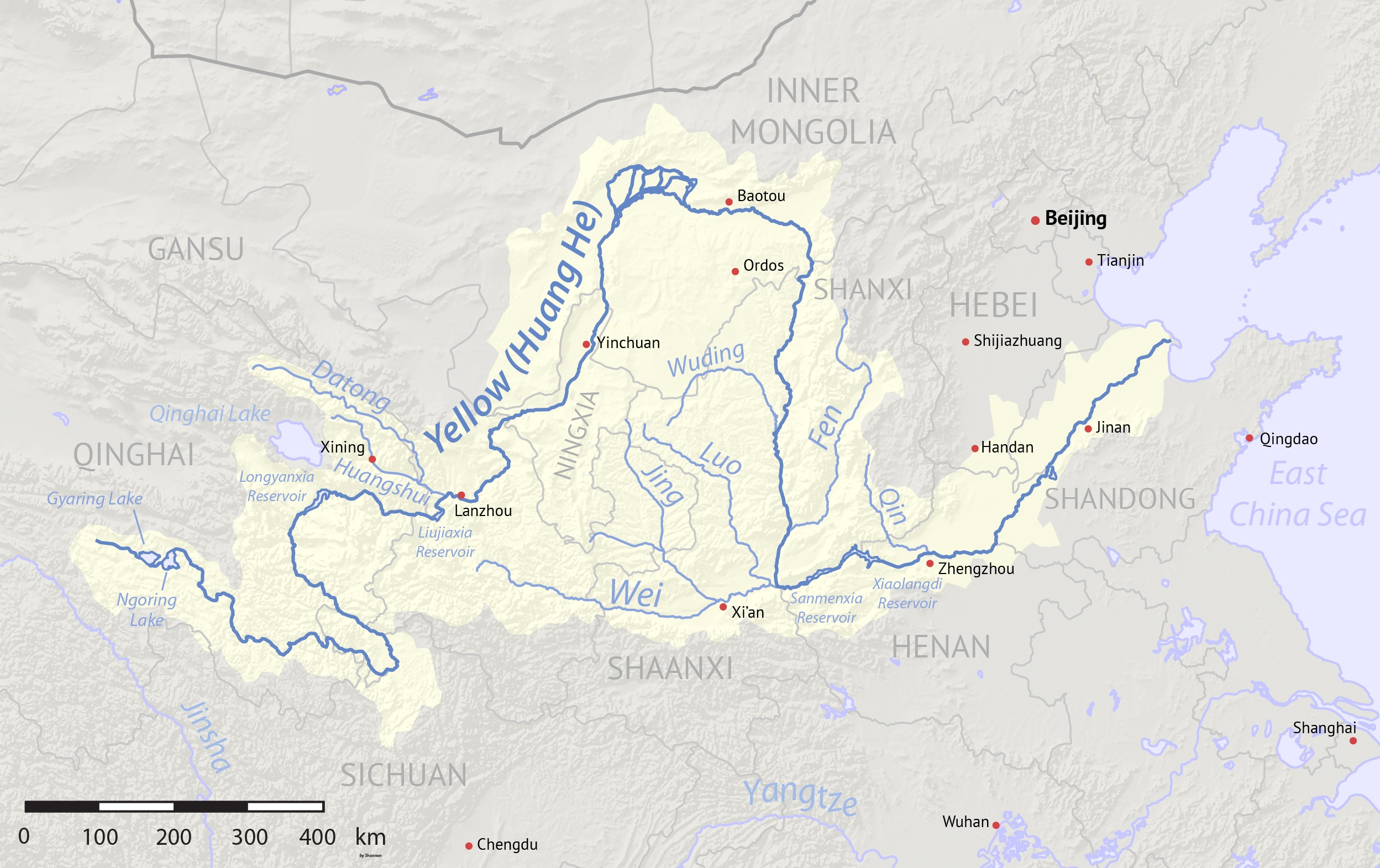 Map of the Yellow River, whose watershed covers most of northern China and drains to the Yellow Sea